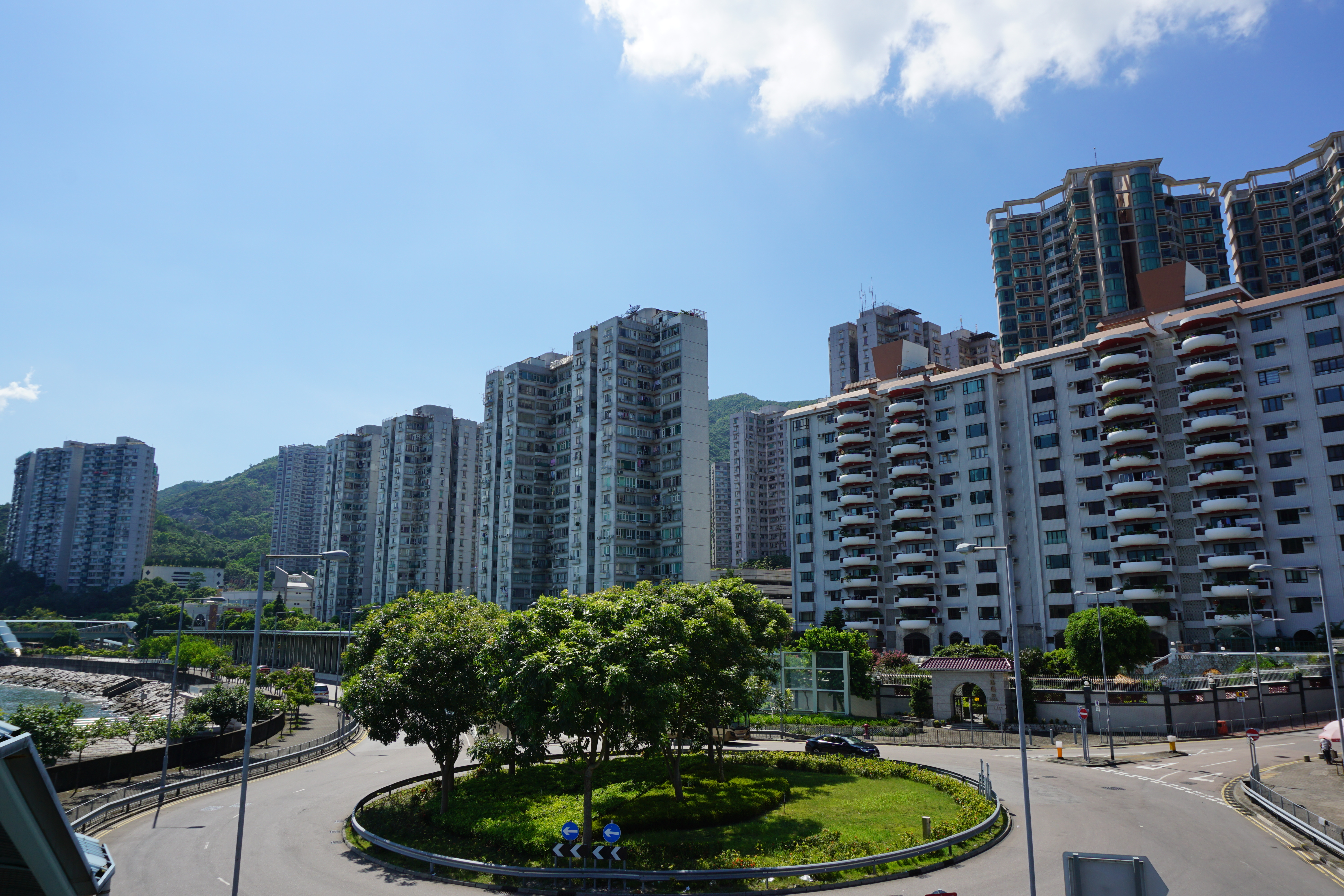 Hong Kong Garden in Tsing Lung Tau, Hong Kong.